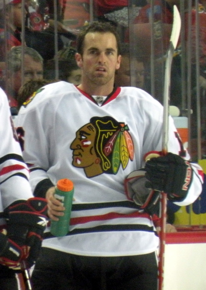 Chicago Blackhawks forward Andrew Ladd during warm up prior to a National Hockey League playoff game against the Calgary Flames, in Calgary.